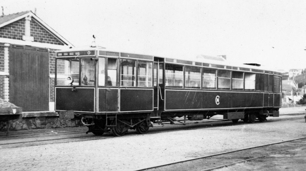 Railcar Renault of the Chemin de fer des Côtes du Nord, metric gauge.